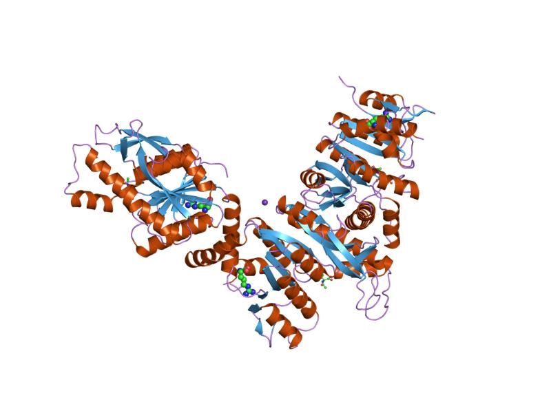 Cartoon representation of the molecular structure of protein registered with 2bty code.